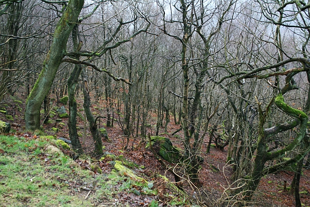 Eaves Wood, Heptonstall Heptonstall is located on a spur of land jutting southwards into Calderdale. Bordered to the east by Hebden Dale and to the west by Colden Clough. Eaves wood clothes the steep eastern wall of Colden Clough.